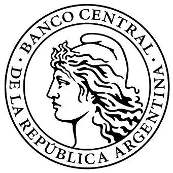 Logo of the Central Bank of Argentina.